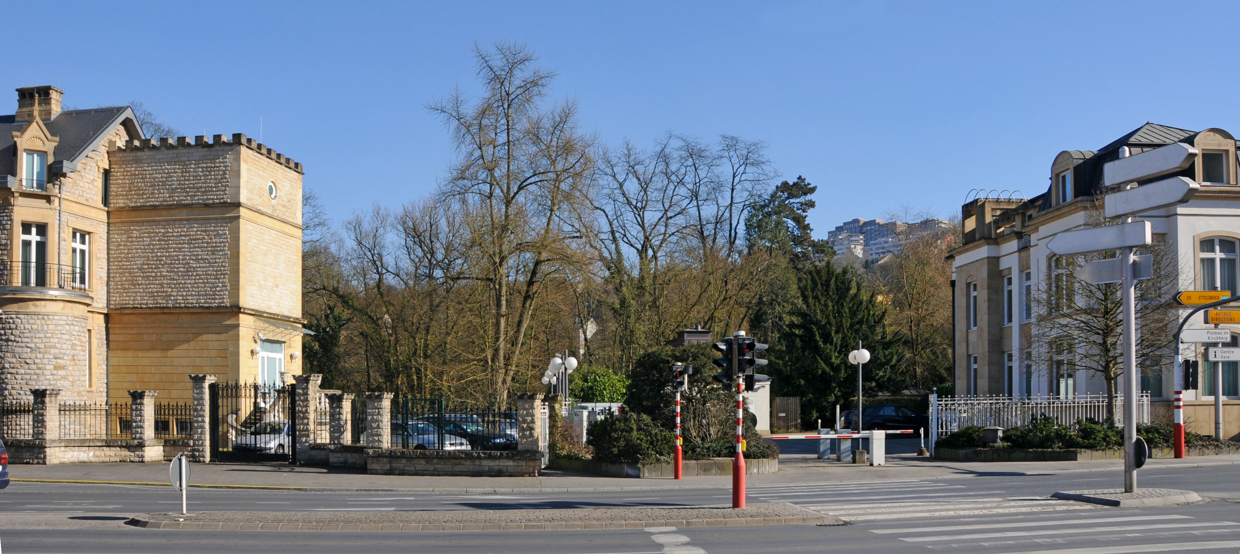 Luxembourg City: remarkable Ginkgo at place Dargent.